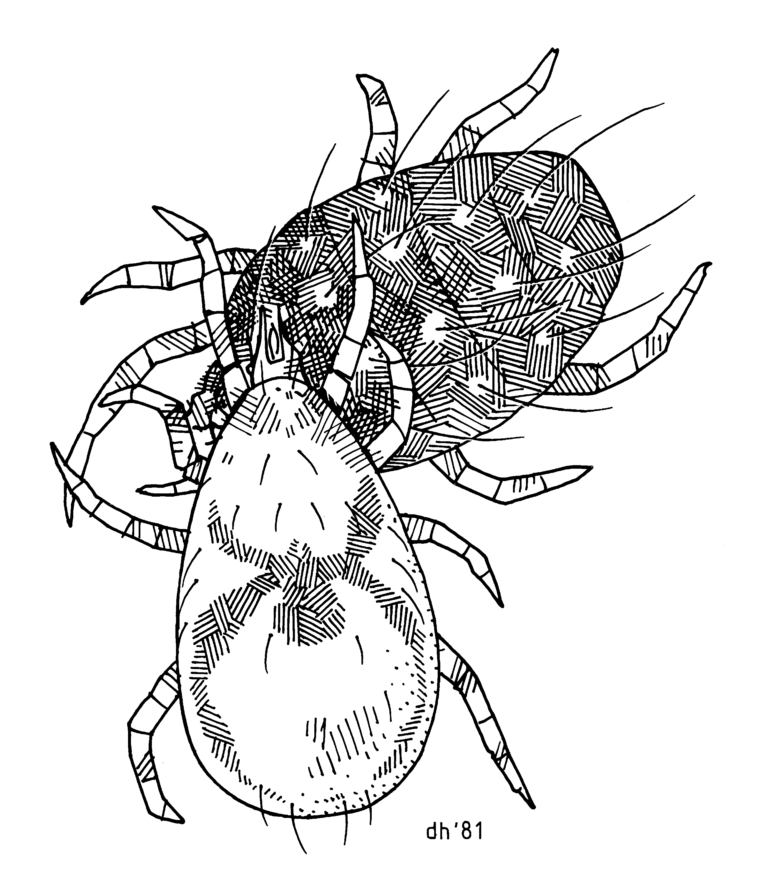 (Acari: Phytoseiidae) Typhlodromus pyri and European red mite illustrated by Des Helmore.